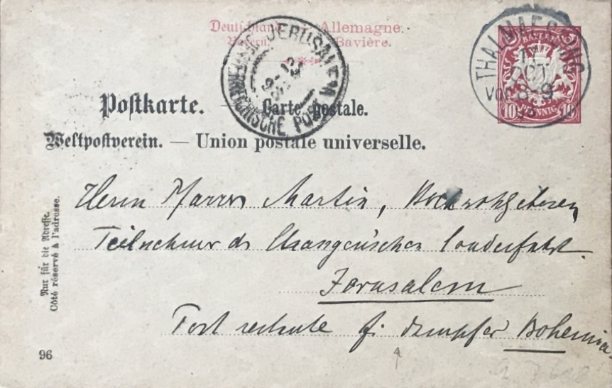 Postcard Bavaria 10 Pfennig, sent from Thalmaessing to Jerusalem 17.10.1898 for a passenger of the SS Bohemia (Austrian Lloyd), special trip to the Inauguration of the Church of the Redeemer by the emperor Wilhelm II organised by the travel agency Carl Stangen (Berlin)